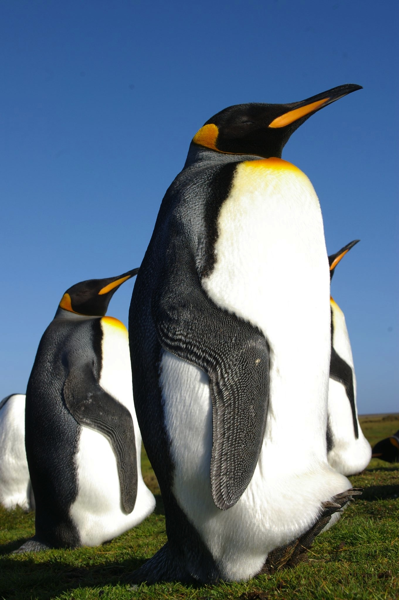 King Penguins (Aptenodytes patagonicus patagonicus), West Falkland